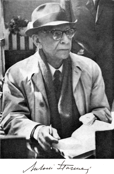 Antoni Slonimski - Polish writer and poet